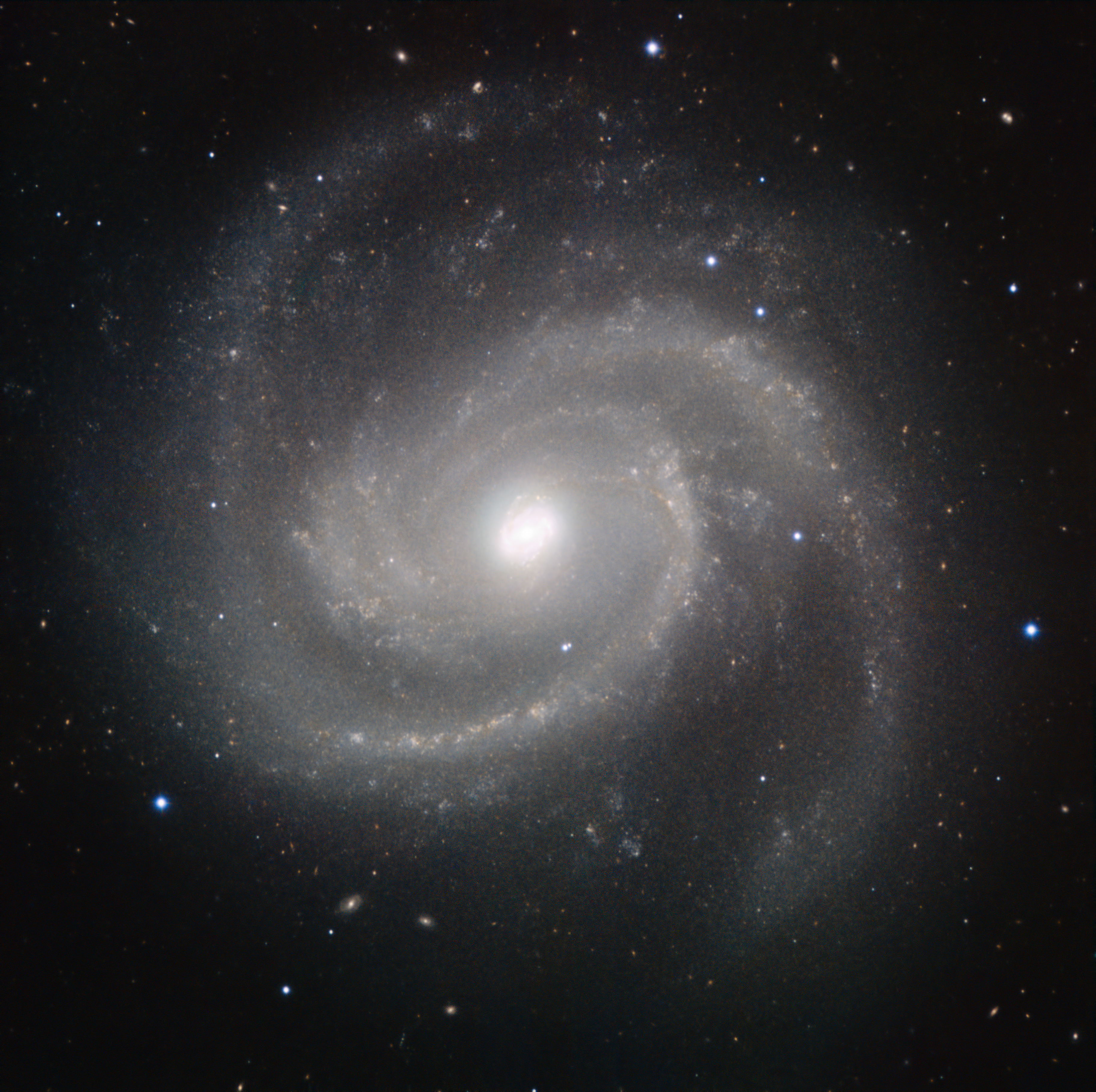 This galaxy is Messier 100, also known as NGC 4321, which was discovered in the 18th century. About 55 million light-years from Earth, Messier 100 is part of the Virgo Cluster of galaxies and lies in the constellation of Coma Berenices (Berenice’s Hair, named after the ancient Egyptian queen Berenice II). The image was made in infrared light with the HAWK-I camera on ESO’s Very Large Telescope at Paranal Observatory in Chile. HAWK-I is one of the most powerful infrared imagers in the world, and this is one of the sharpest and most detailed pictures of this galaxy ever taken from Earth. The filters used were Y (shown here in blue), J (in cyan), H (in orange), and K (in red). The field of view of the image is about 6.4 arcminutes.